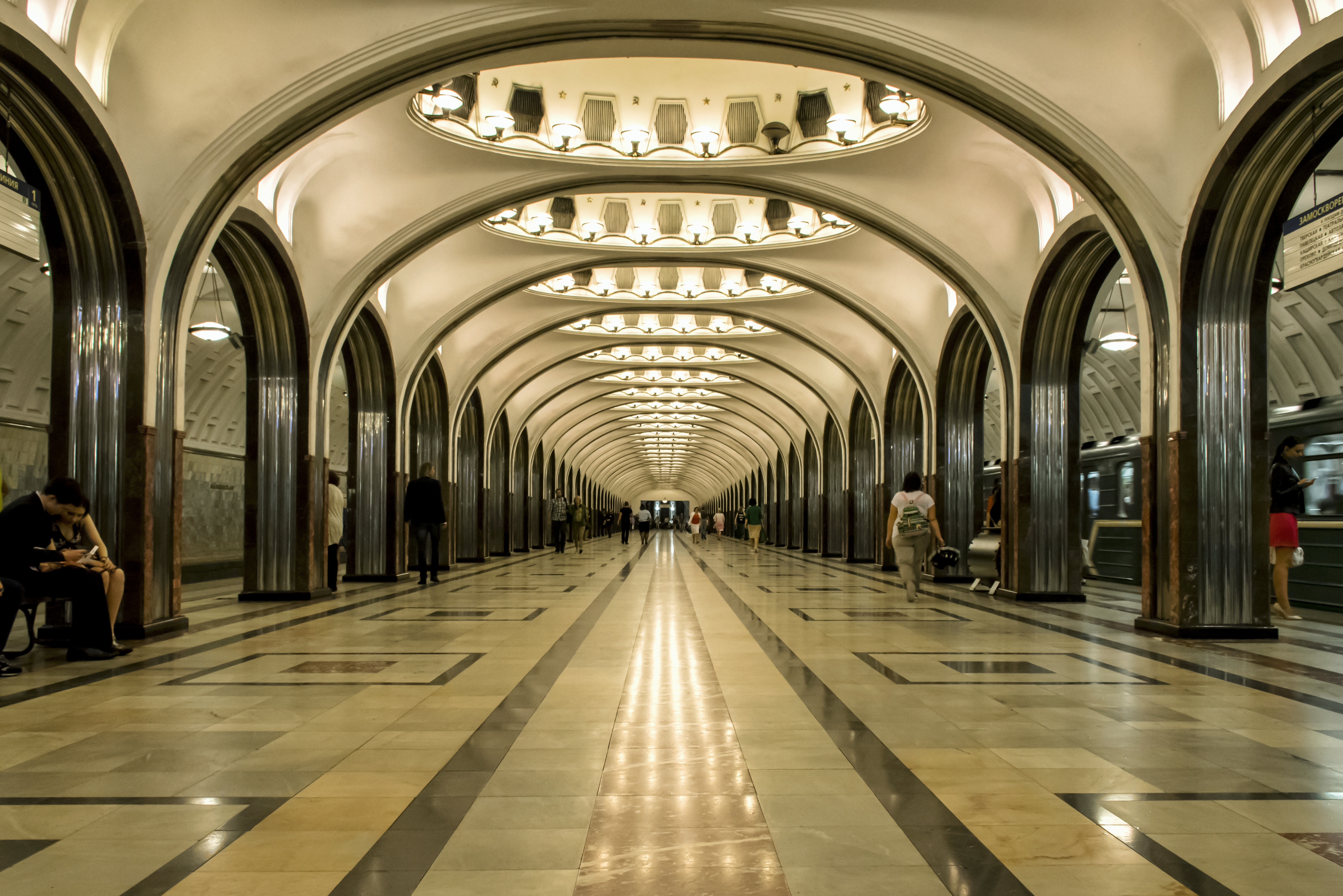 Mayakovskaya metro station, Moscow